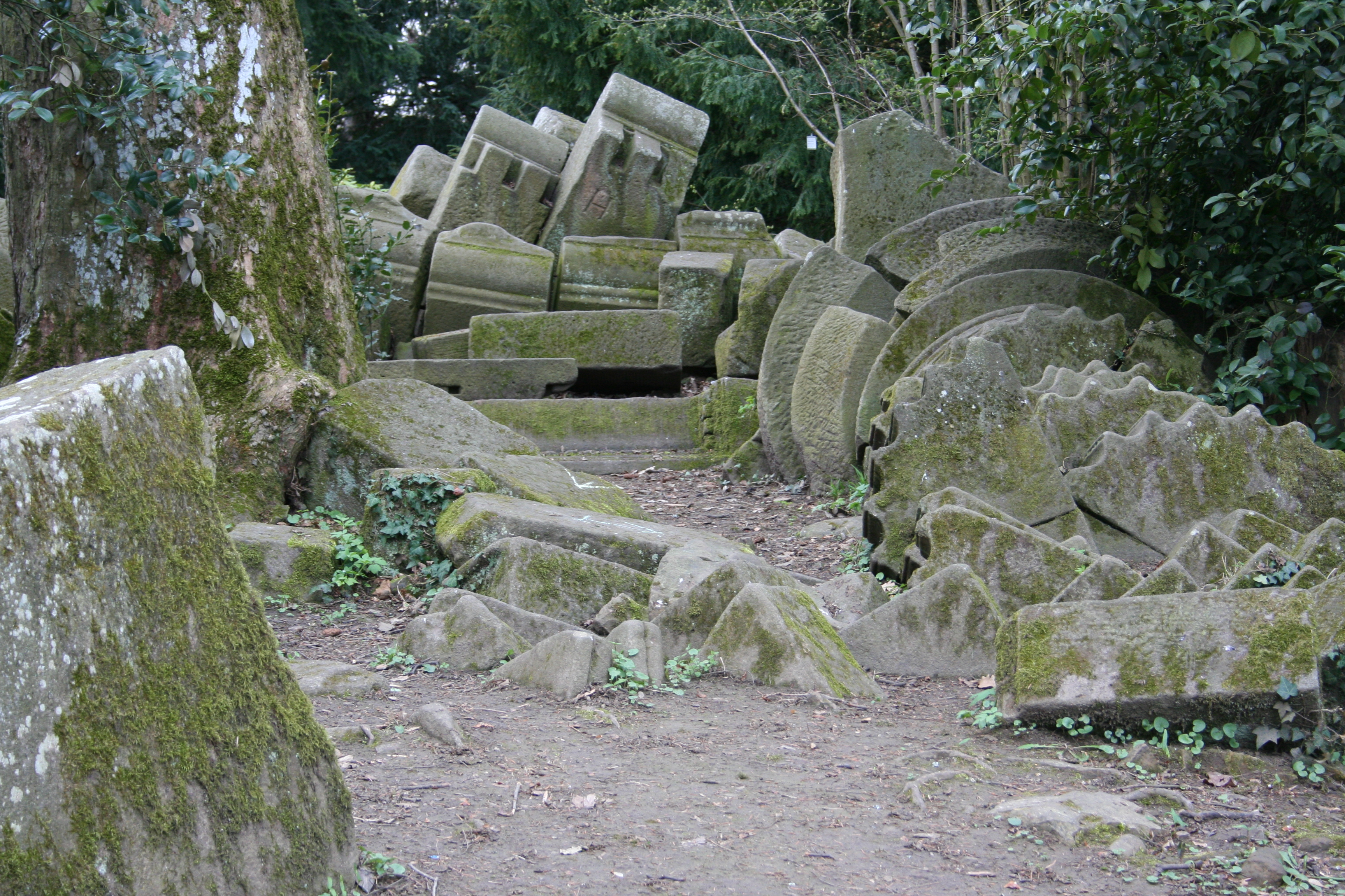 Jupiter columns in the castle garden high home in Stuttgart. Already as a ruin of the sculptor G. Hornung in the style of the romanticism in 1785 created. Town district of Stuttgart-Plieningen, Baden-Wurttemberg, Germany.